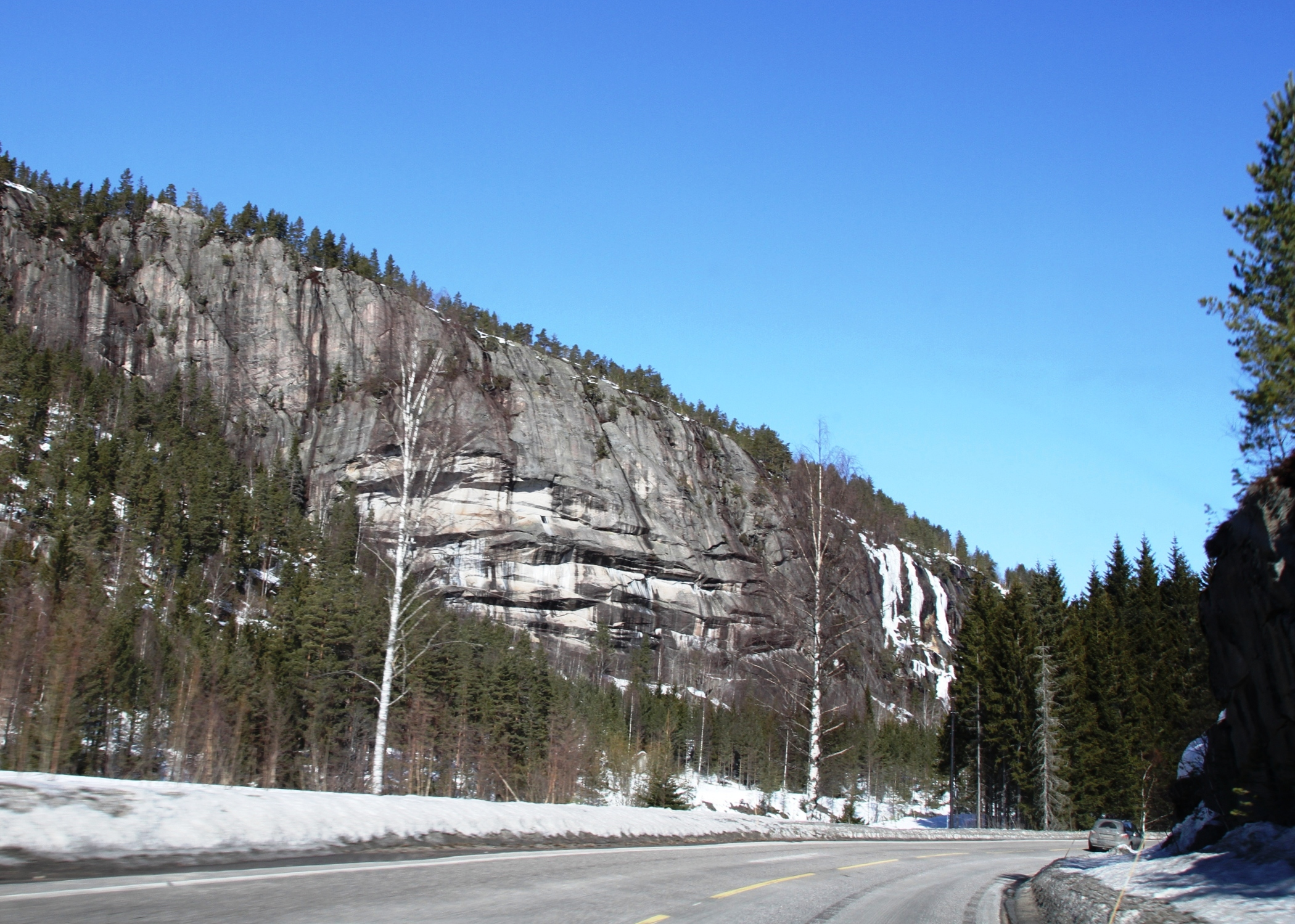 Image from along highway 41, just north of the settlement Åmli, in northern Åmli municipality, Aust-Agder county (Norway). The river is the Nidelva.